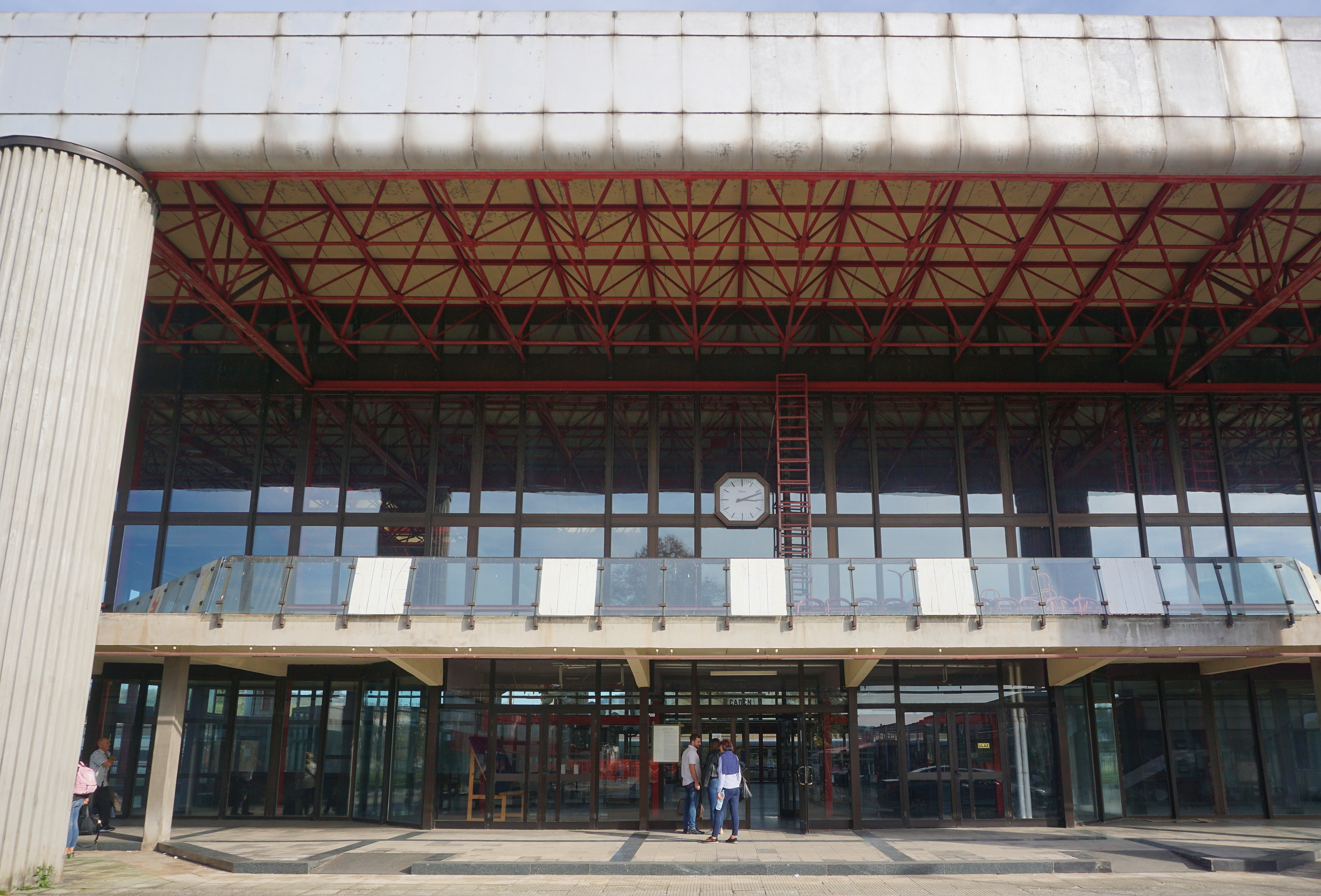 Banja Luka railway station